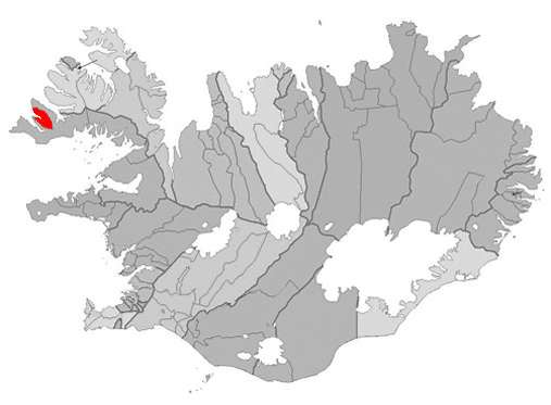 Based on Municipalities of Iceland.png.